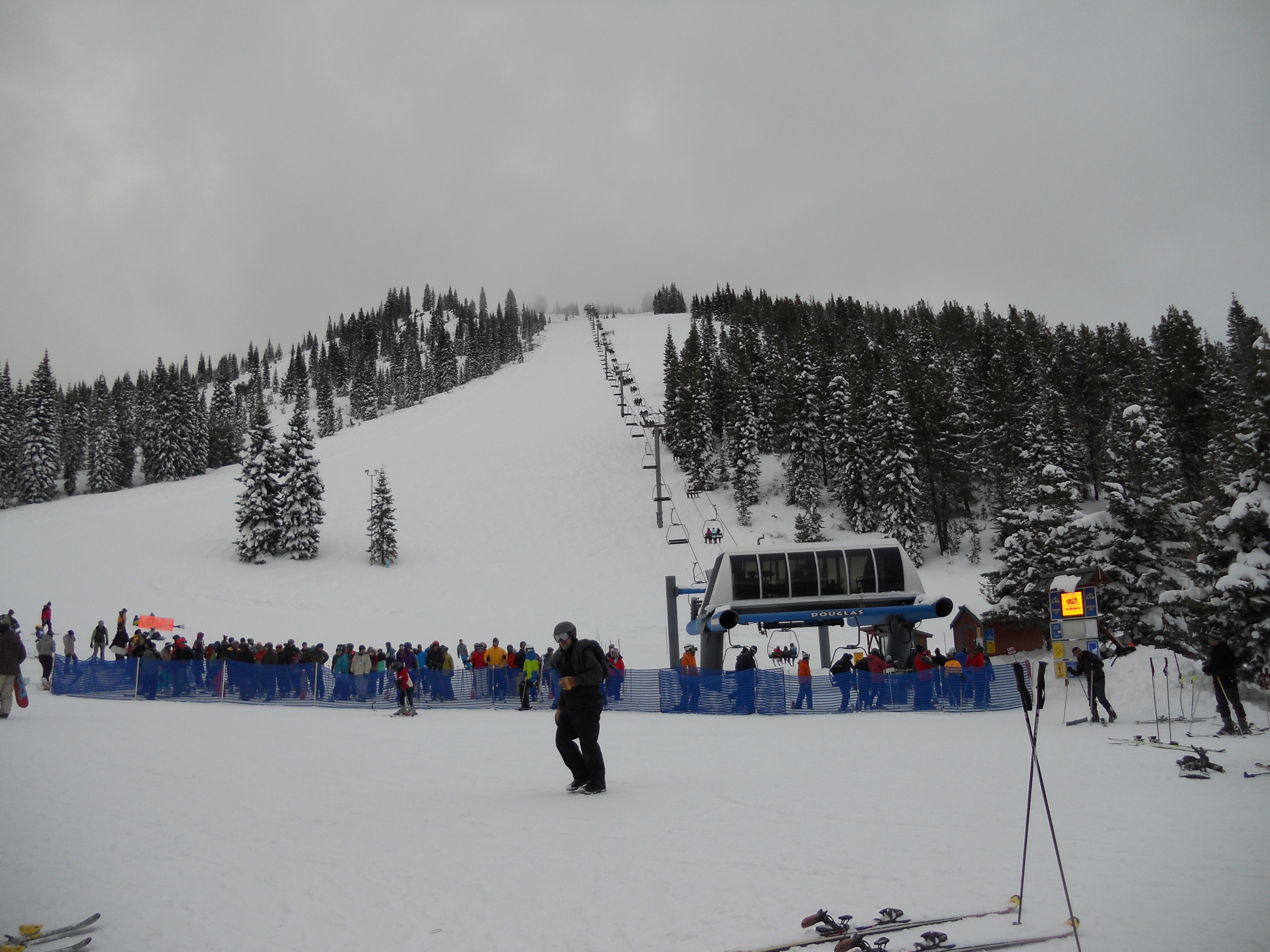 The base of Mount Shasta Ski Park in Siskiyou County, California, showing the Douglas Chair and the West Face run